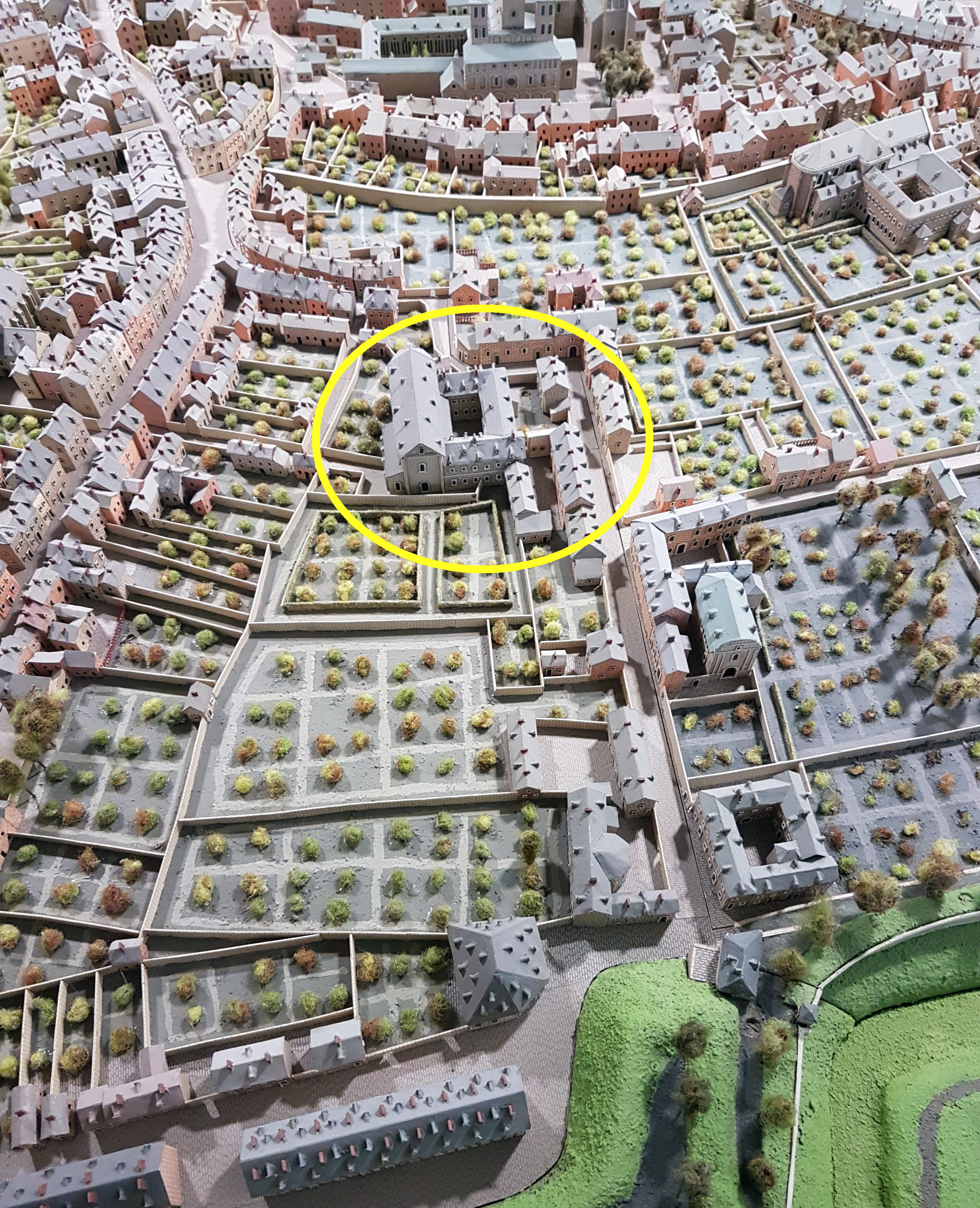 Detail of the copy of the French Maquette of Maastricht with a view of Kommel and Calvariestraat. This scale model was made in 1974-1982. It is a genuine copy of the 18th-century original made for King Louis XV of France, now in the Palais des Beaux-Arts in Lille, France. The copy is exhibited in Centre Céramique in Maastricht, the Netherlands.